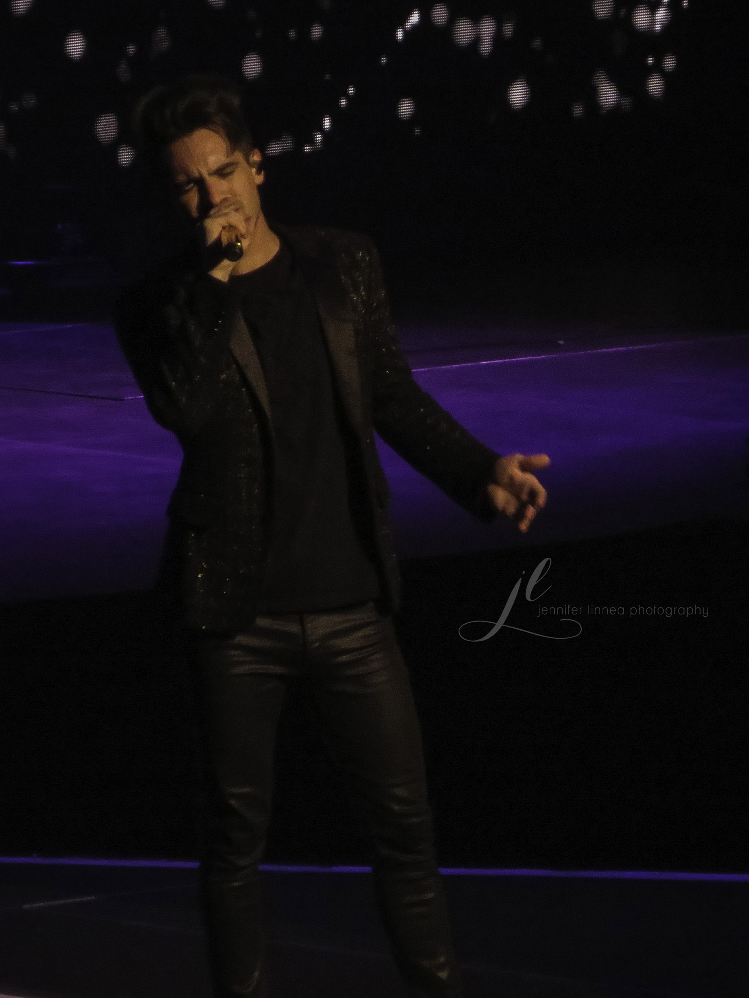 Brendon Urie on stage during Panic! At the Disco's Pray for the Wicked Tour stop in Denver, CO at the Pepsi Center on August 7, 2018.